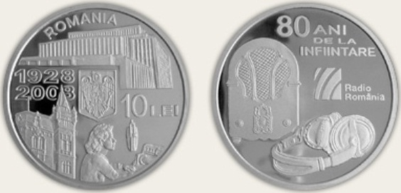 A 2008 coin commemorating the Romanian Radio Broadcasting Company.